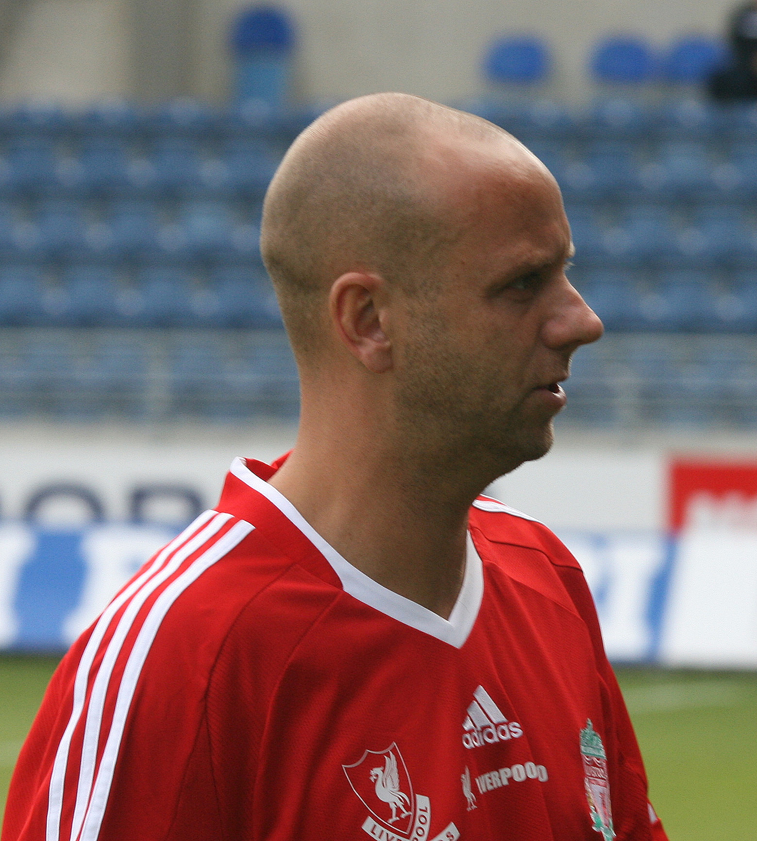 Rob Jones